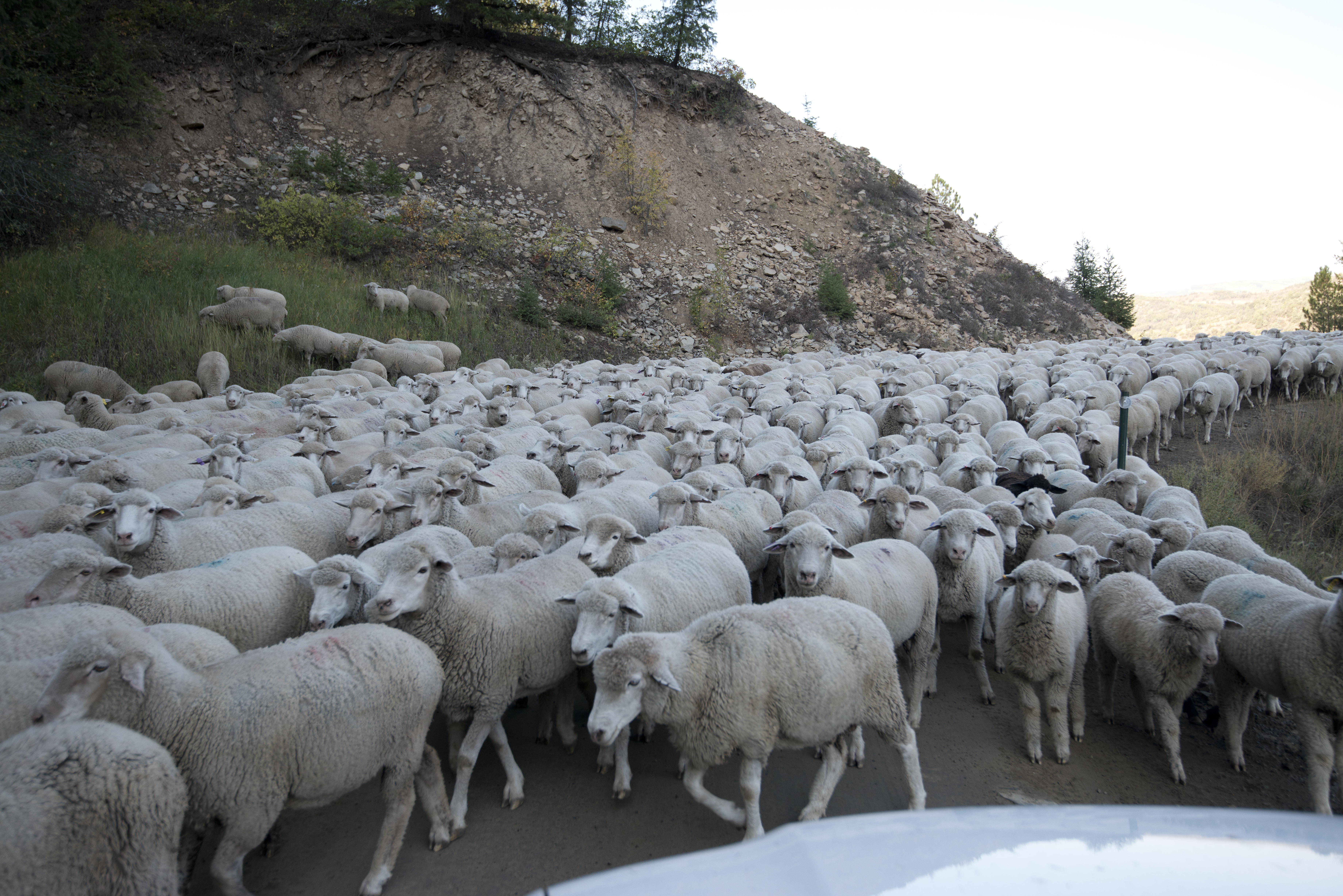 After leaving Crystal, I drove south on CO 133 to Paonia and then onto CO 12 toward Kebler Pass. This was supposed to be a good area for leaf-watching, and it turned out to be true. But several miles up the dirt road, I was stopped by a flock of sheep coming down the road. I sat in my truck and watched them go by.